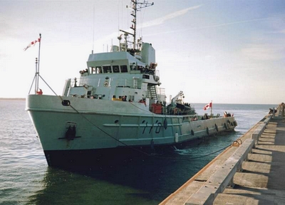 Photo of HMCS ANTICOSTI taken at Rimouski harbour, Quebec, around summer 2000 (35mm photo scanned)